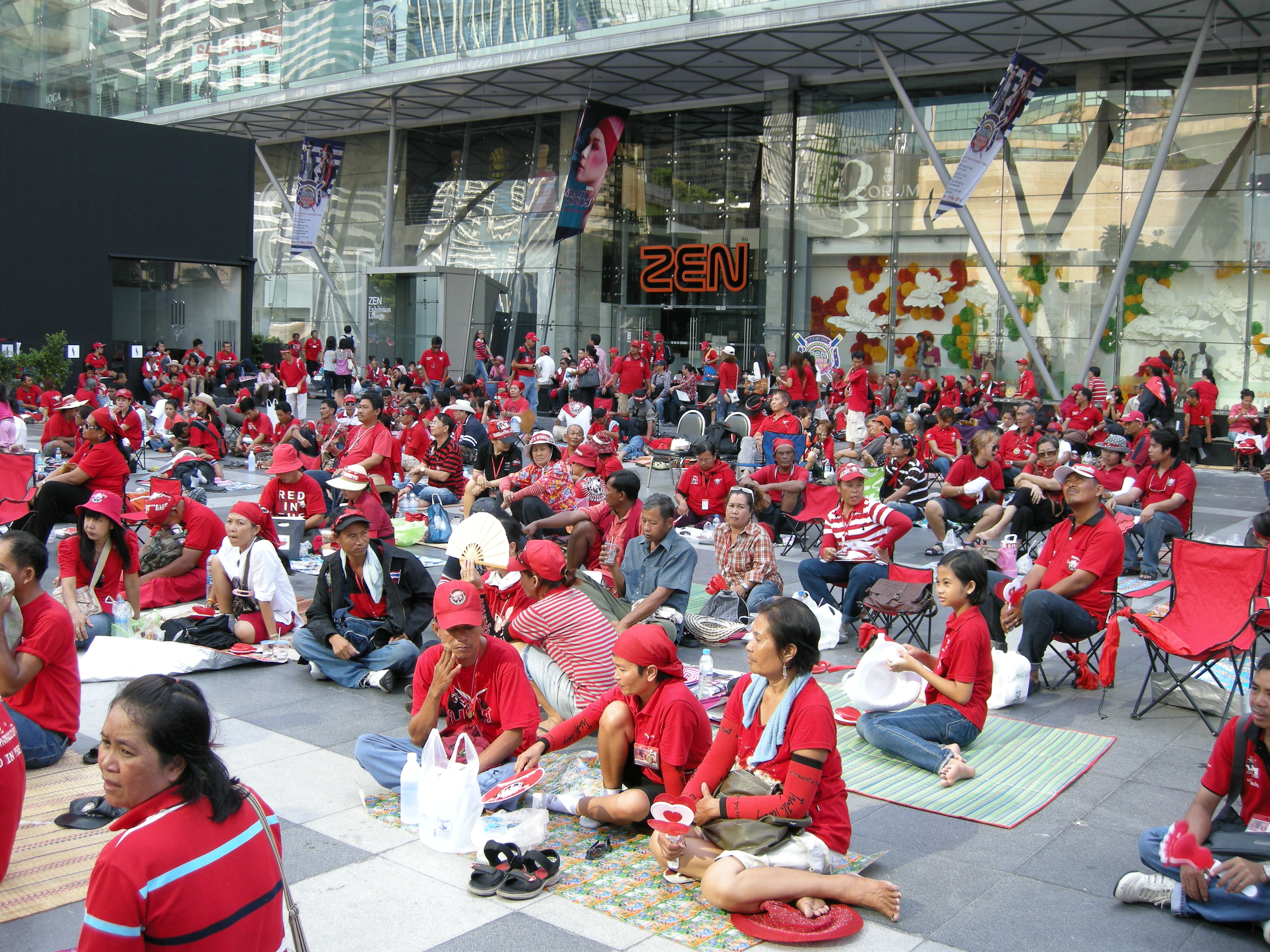 2010 Thai political protests